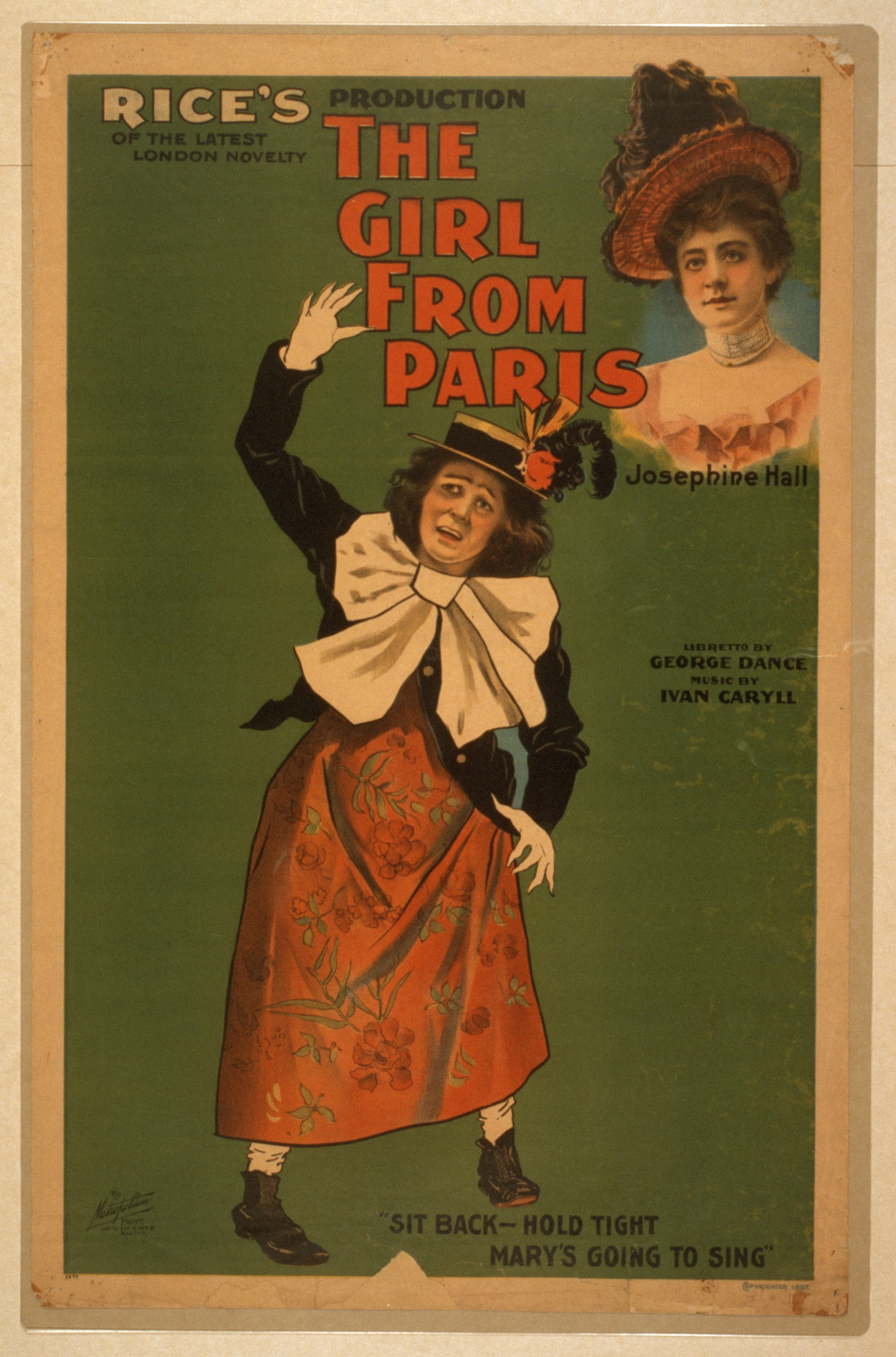 Title: Rice's production of the latest London novelty, The girl from Paris written by George Dance ; music by Ivan Caryll. Abstract/medium: 1 print : color lithograph ; sheet 76 x 50 cm. (poster format)